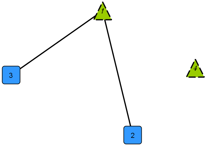 Visone1 after applying a geometric transformation.